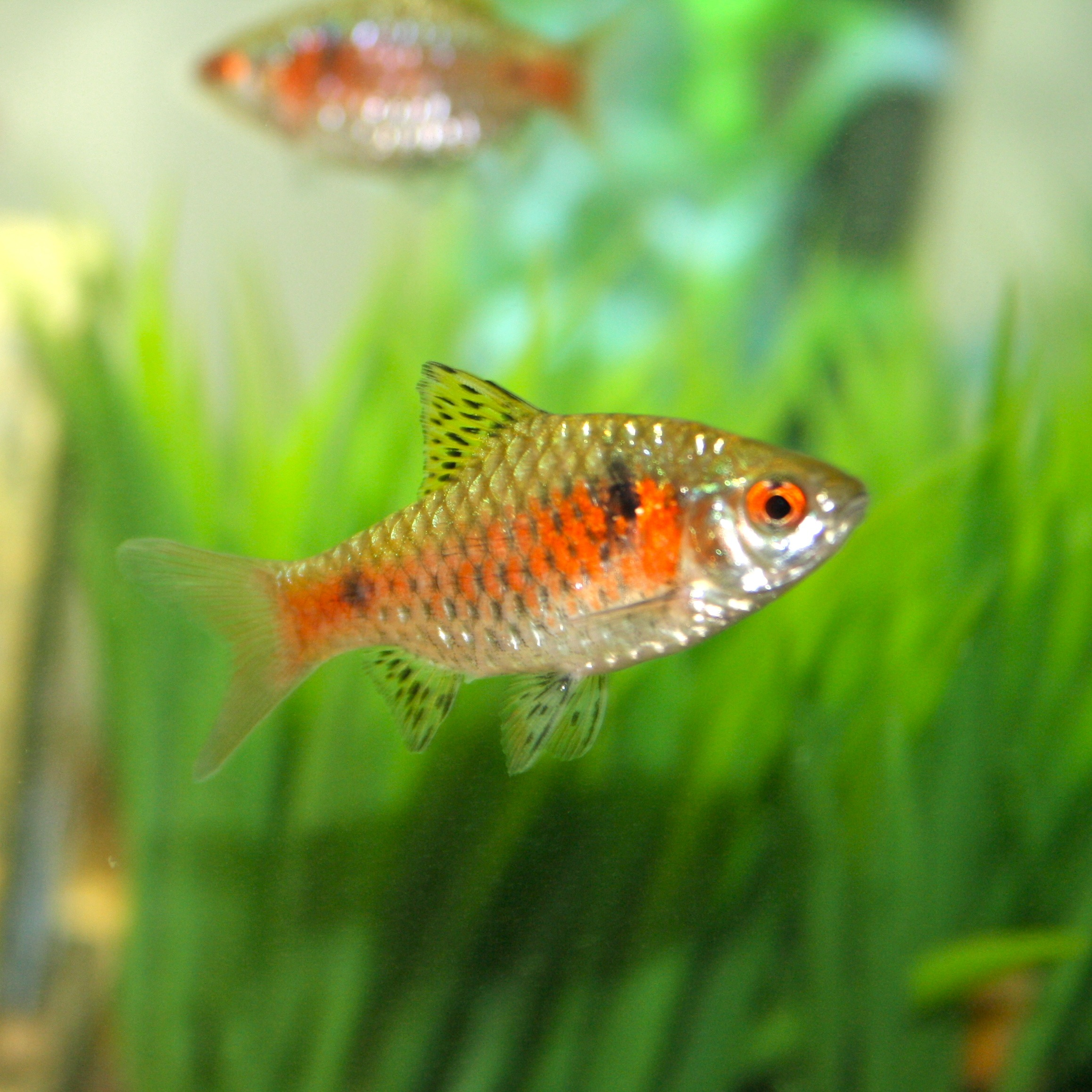 Photo of Puntius Padamya or Odessa barb